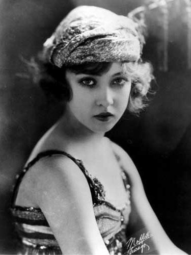 Doris Eaton Travis (1904-2010) in her youth (somewhere around 1910-1922).